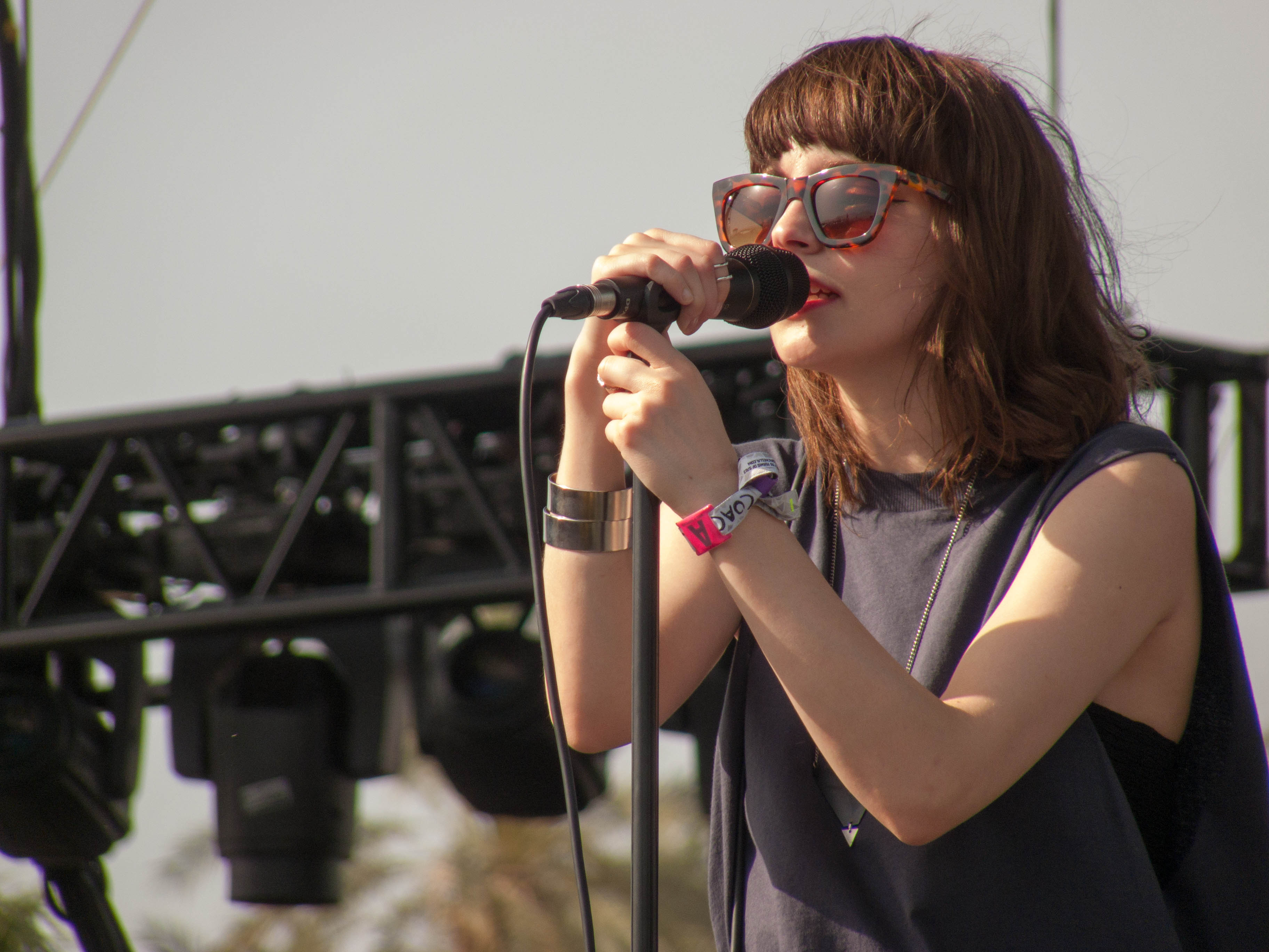 Lauren Mayberry of Chvrches at Coachella in 2014.